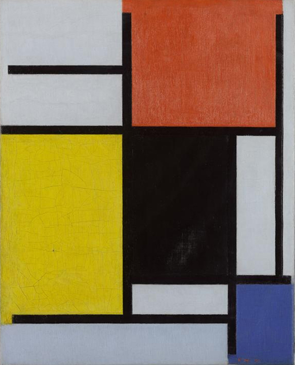 Composition with Red, Yellow, Black, Blue and Grey by Piet Mondrian, 1921, oil on canvas, 48 x 38 cm, Gemeentemuseum Den Haag, longterm loan of The Rembrandt Society